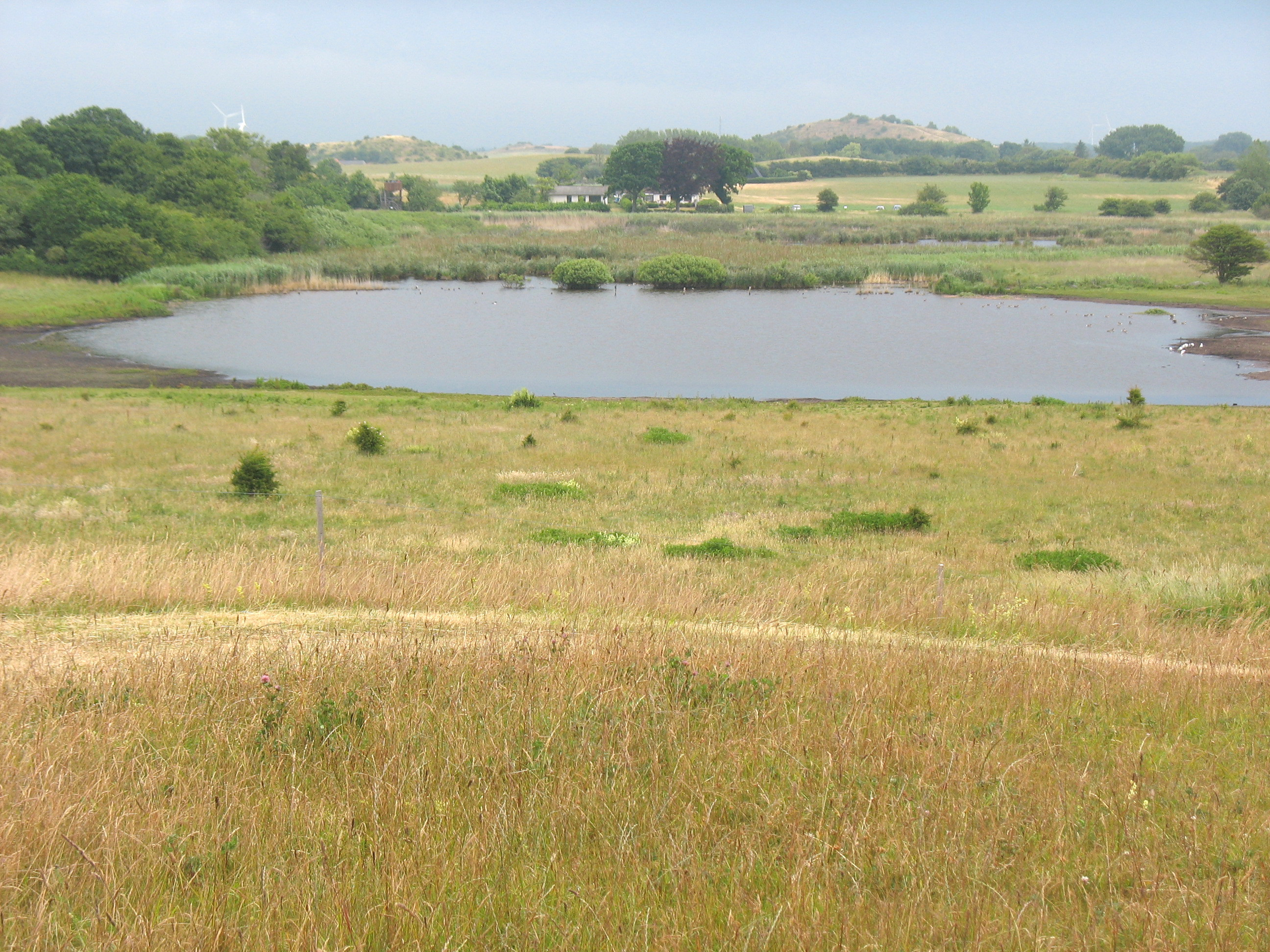 The landscape "Kelds Nor" at the south end of the Danish island Langeland.